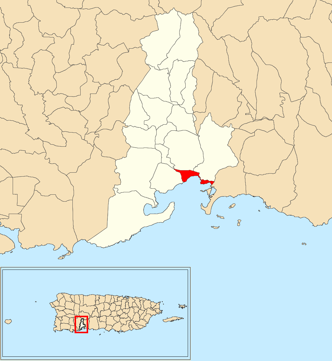 Playa, Guayanilla, Puerto Rico locator map